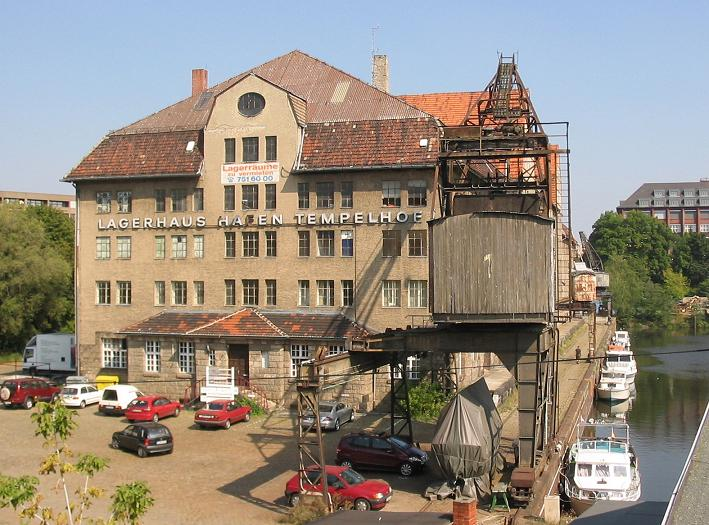 Teltowcanal, warehouse der "Gründerzeit" (Founding Epoch) at harbour Berlin-Tempelhof